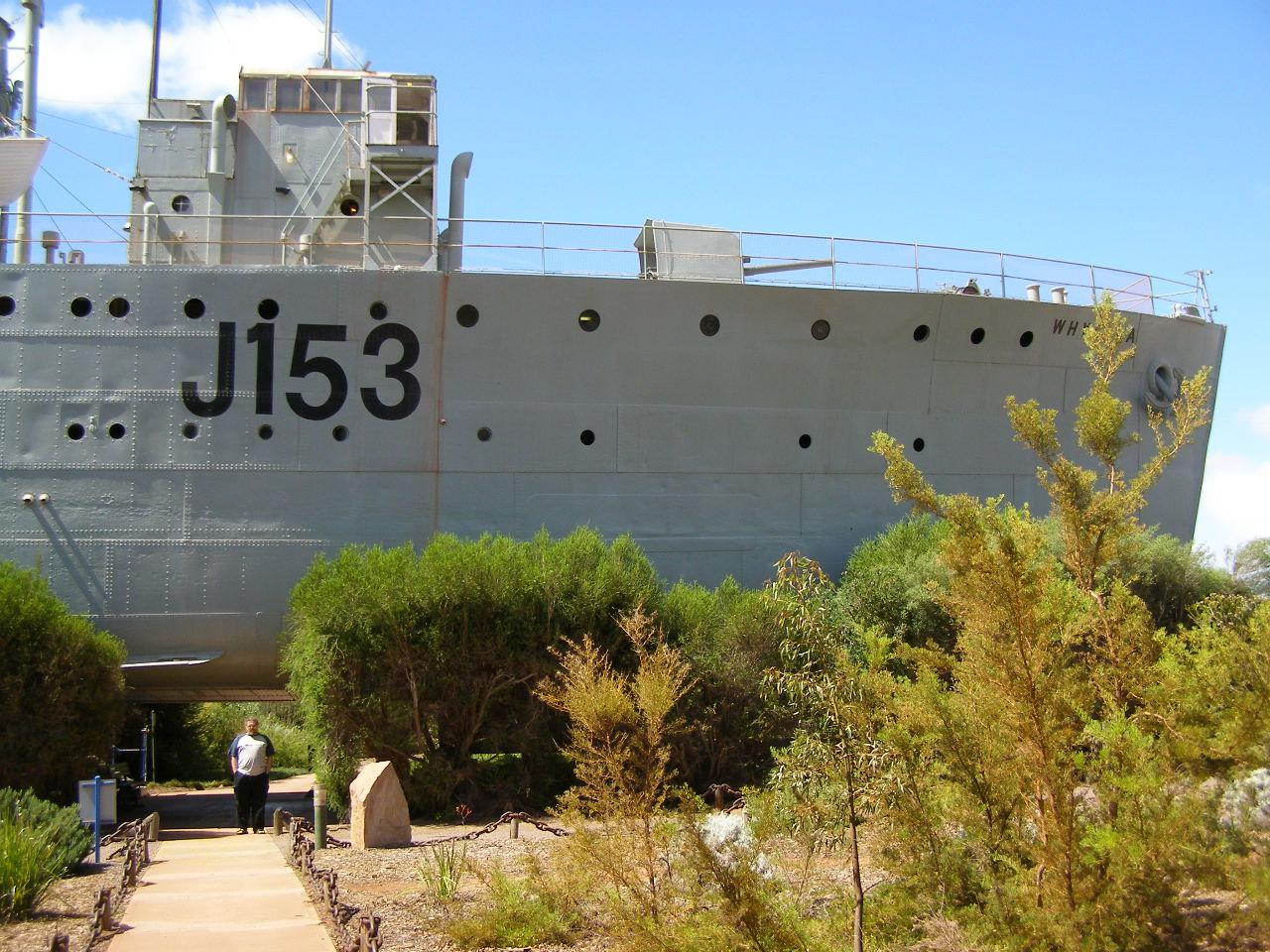 En:The World War 2 corvette, the HMAS Whyalla, at Whyalla, South Australia Fr:Une corvette de la 2nde corvette, le HMAS Whyalla